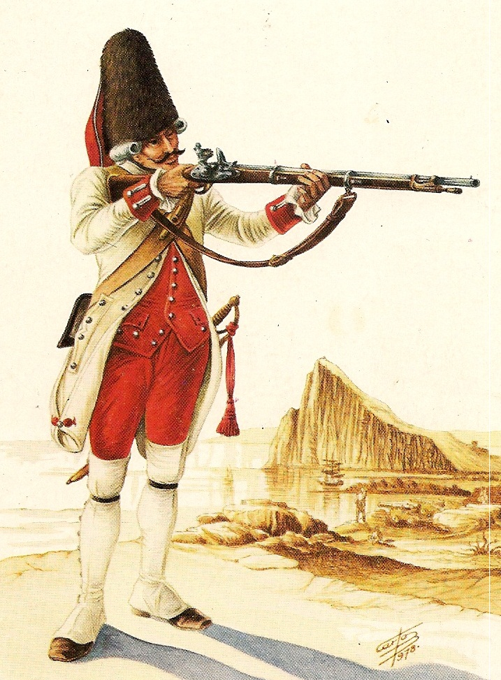 A grenadier from the Napoles Regiment